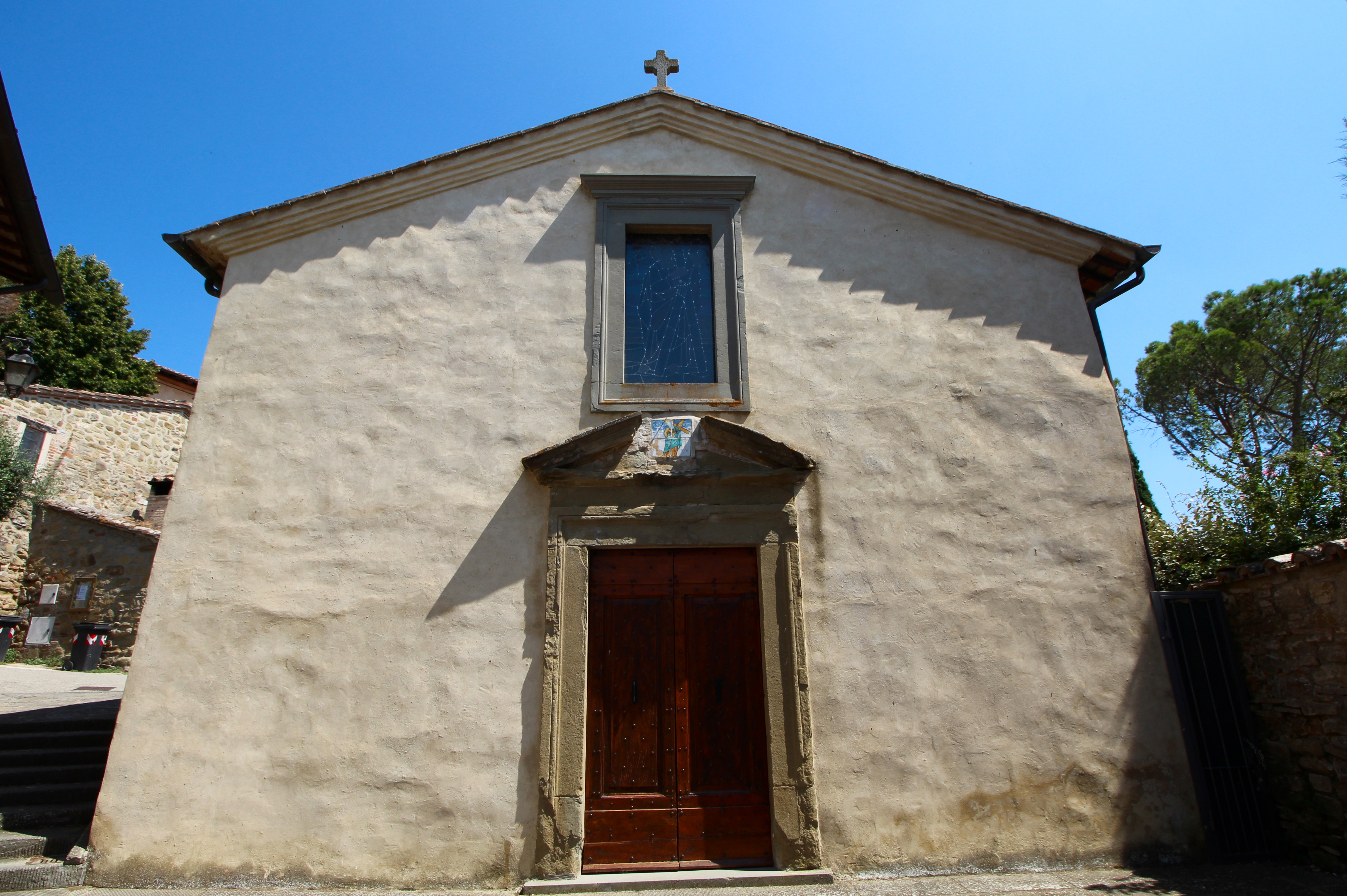 Church Sant'Andrea, Monte del Lago, hamlet of Magione, Umbria, Italy